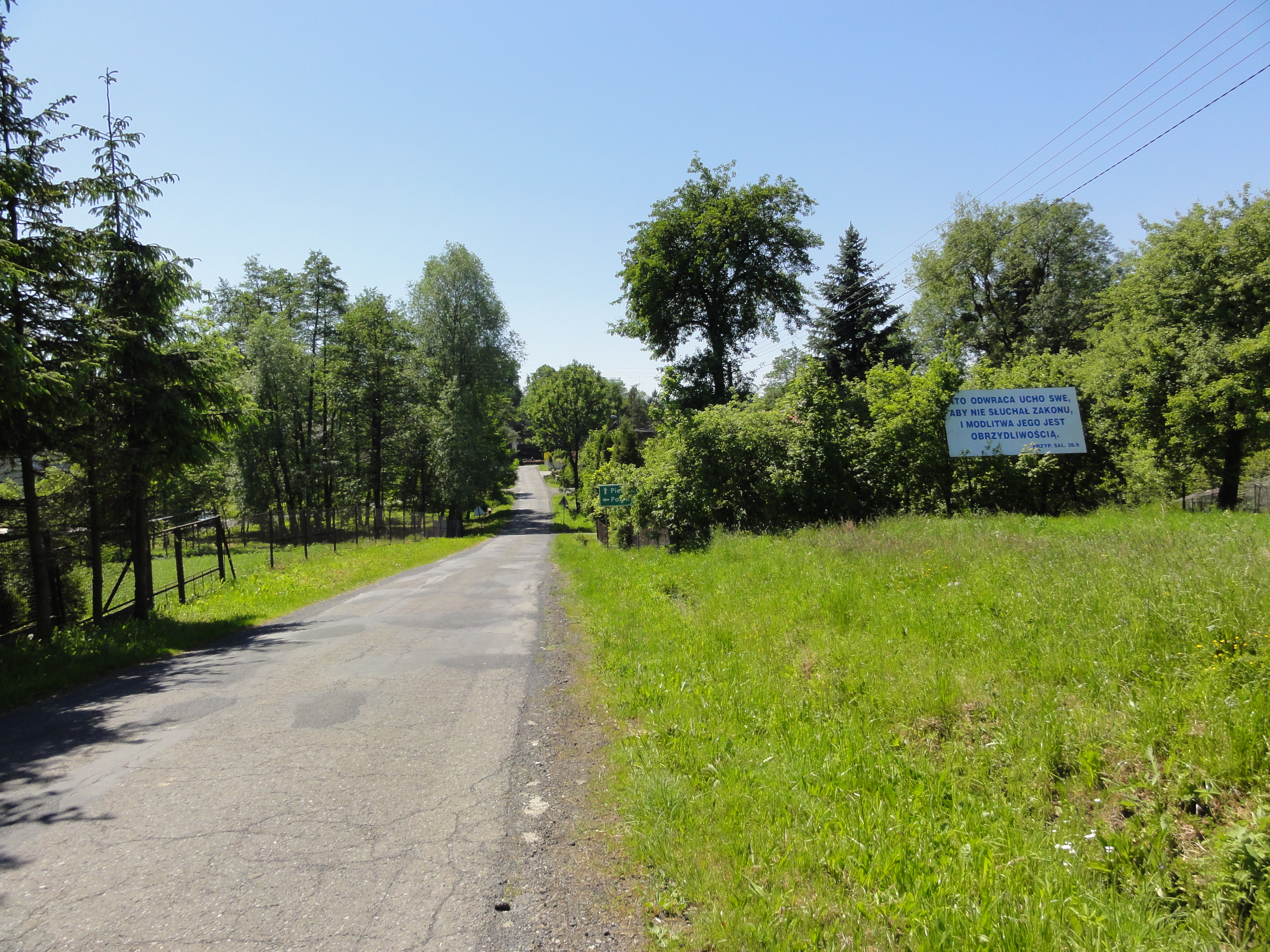 Road in Kowale from Wieszczęta